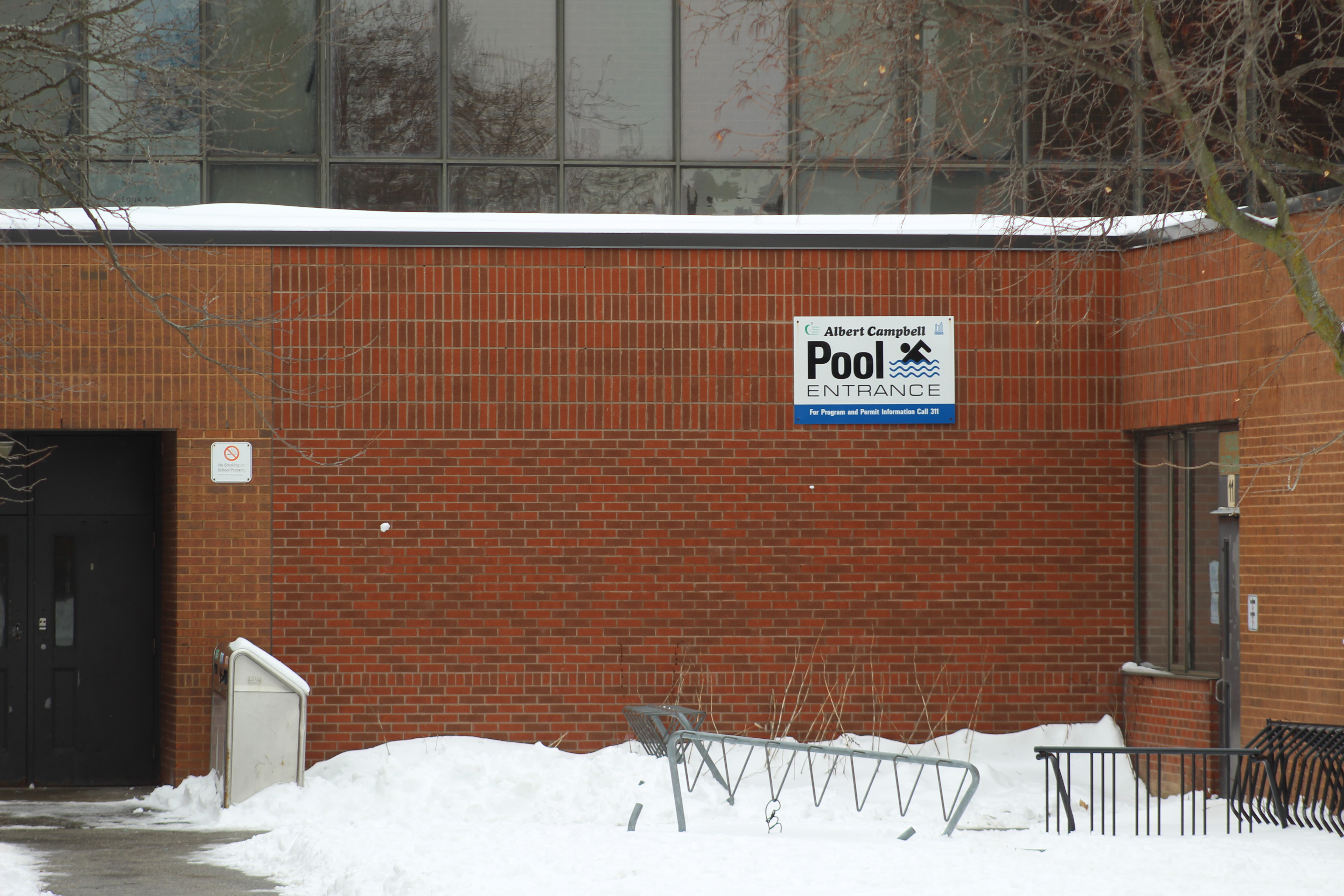 Pool entrance in Albert Campbell Collegiate Institute.